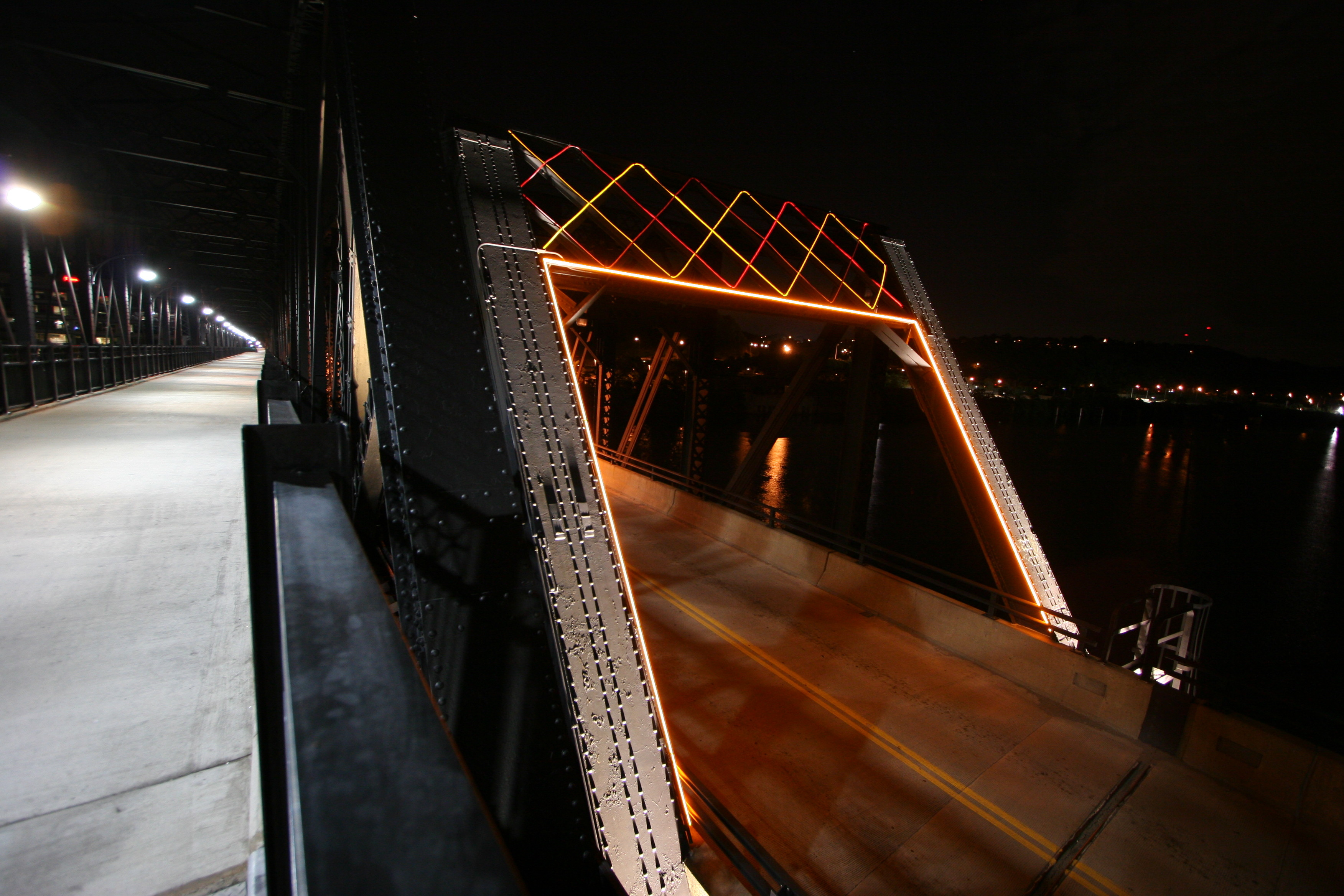 Hot Metal Bridge, Pittsburgh, Pennsylvania, Lighted by the Pittsburgh History & Landmarks Foundation, South portal view.